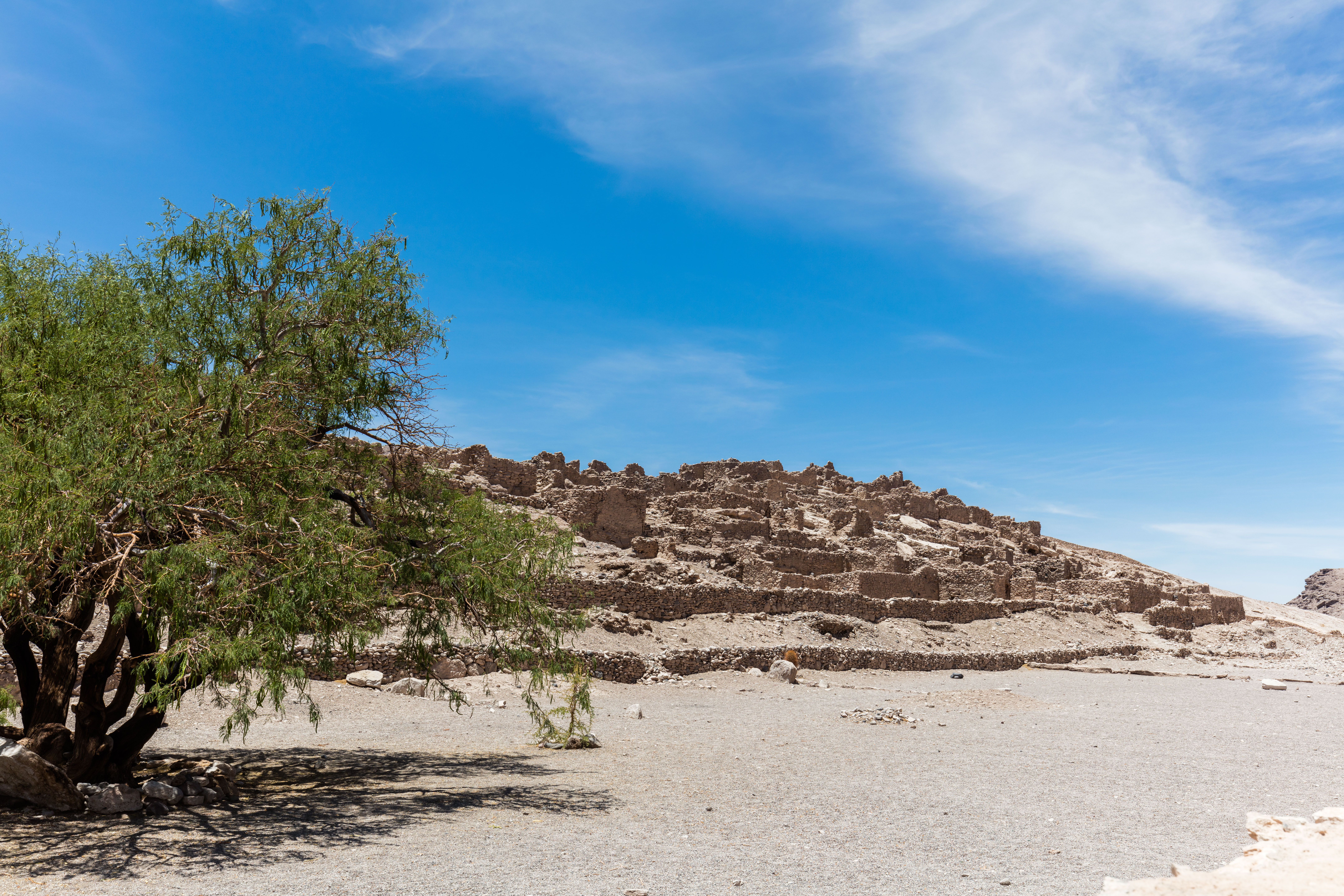 Pucará of Lasana, Chile